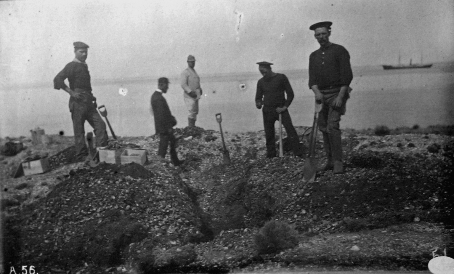 Kitchen midden at Elizabeth Island, Strait of Magellan as excavated by the Albatross party with the Albatross at anchor.